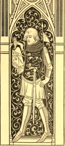 Henry Plantagenet Earl of Leicester